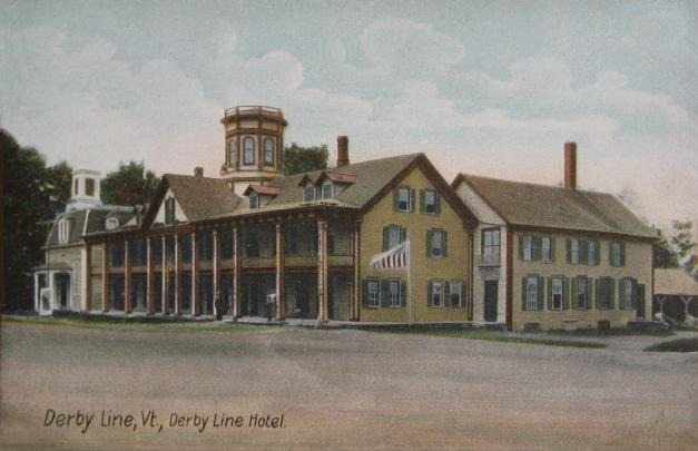 The Derby Line Hotel, Derby Line, Vermont; from a c. 1908 postcard published by the Hugh C. Leighton Company, Portland, Maine.